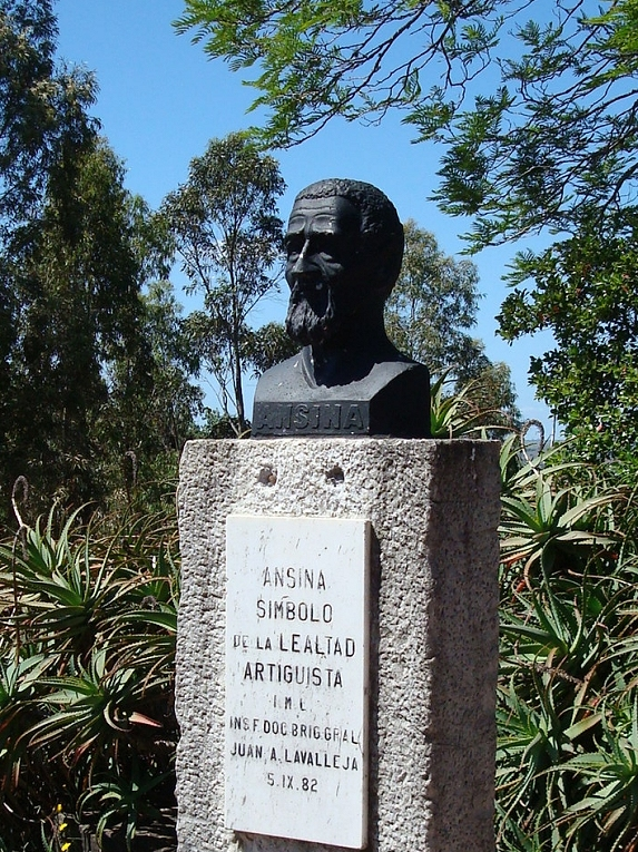 Monument to Ansina, faithful friend and companion of Artigas, in Parque Artigas, Minas, Lavalleja Department, Uruguay.